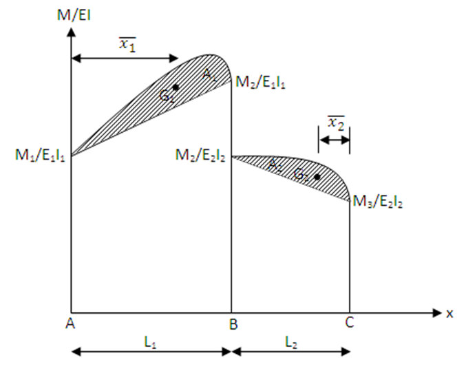 This Diagram use to derived Three Moment Theorem